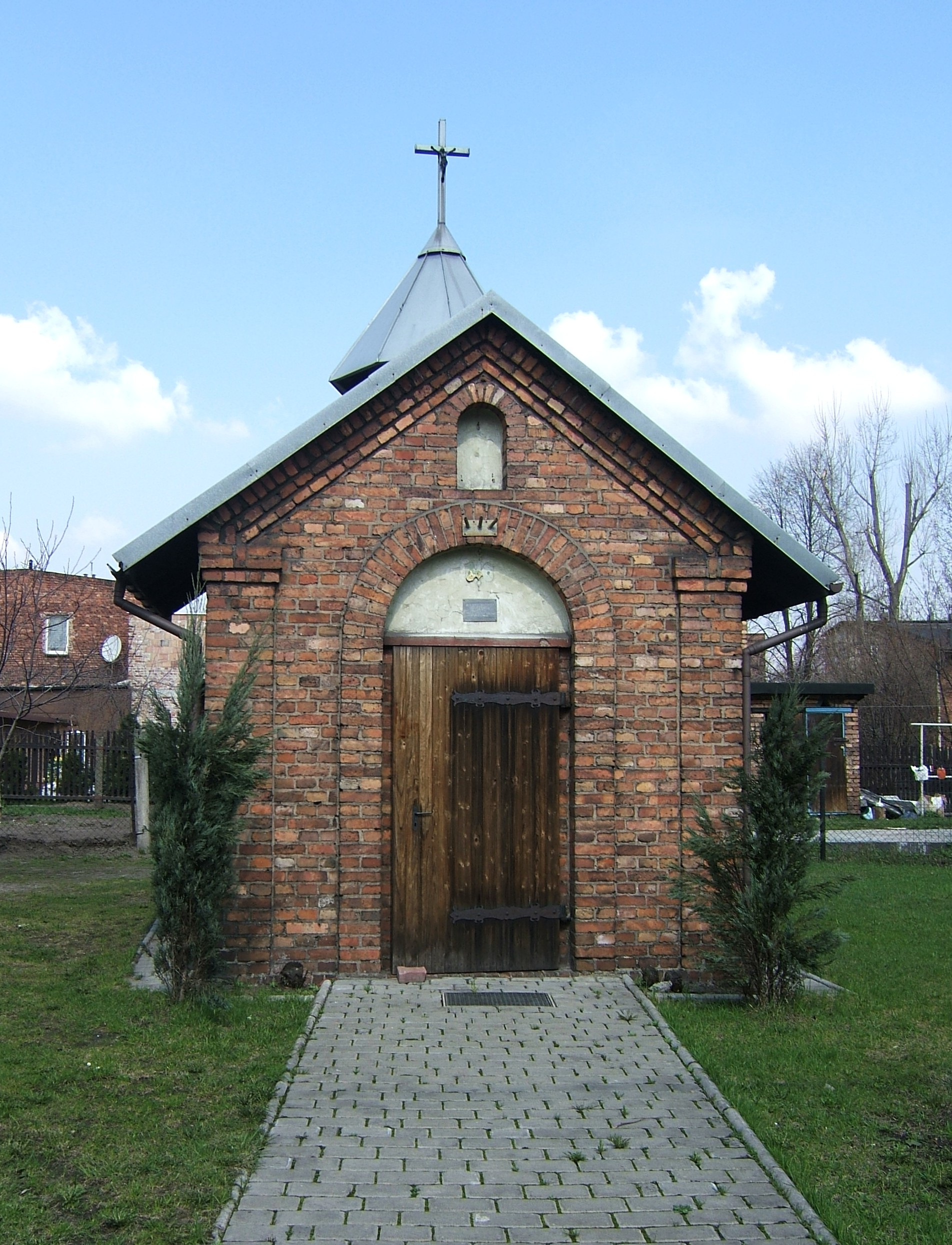 Chapel in Piotrowice, a district of Katowice.